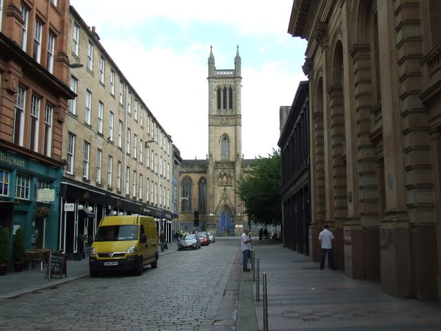 Candleriggs Looking towards the Gothic Revival style former Ramshorn Kirk which was originally named St David's Church. The church dates from 1826, the architect was Thomas Rickman. The building is now a lecture theatre, owned by Strathclyde University. The building on the right is City Halls.